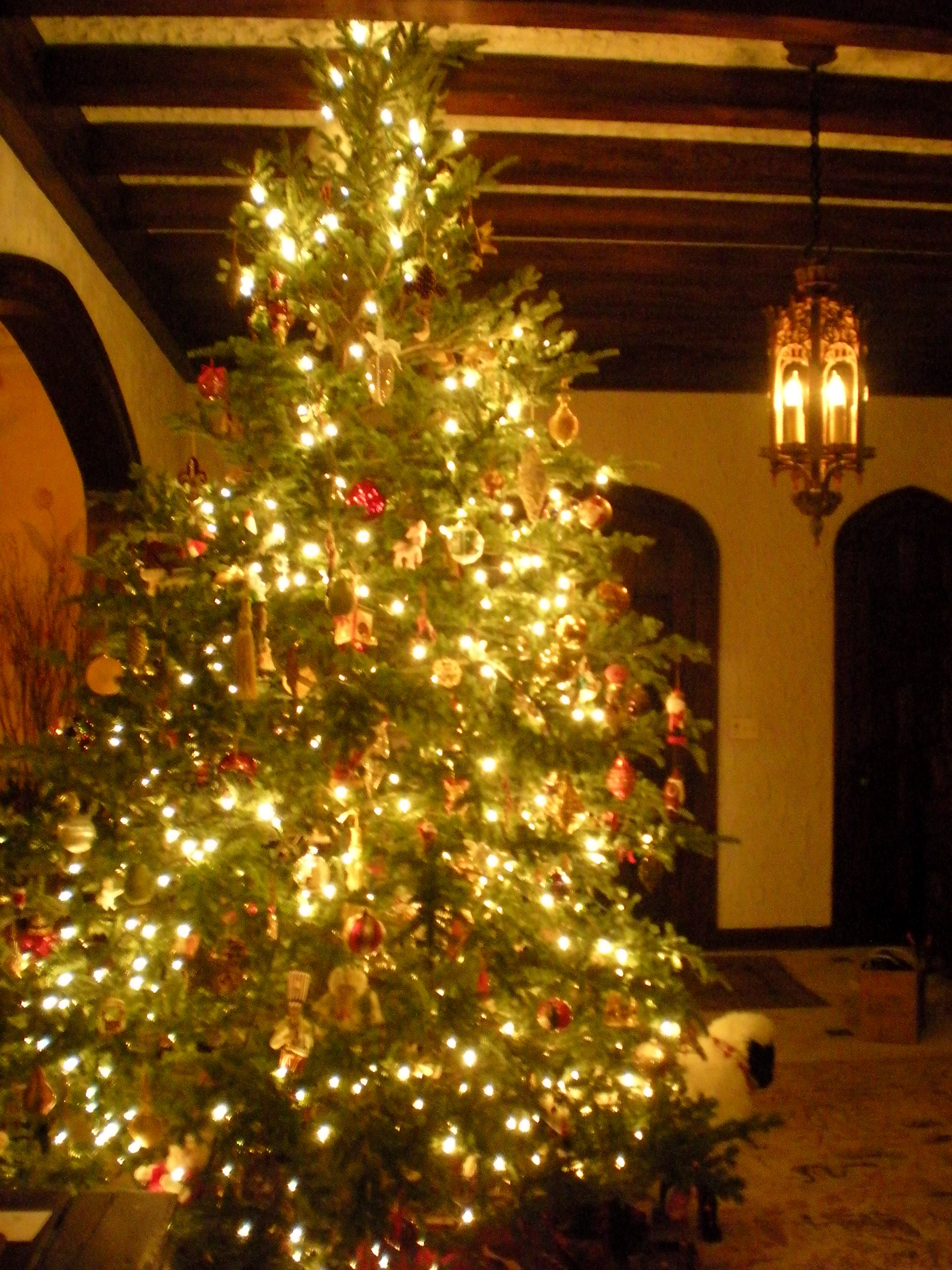 American Christmas Tree